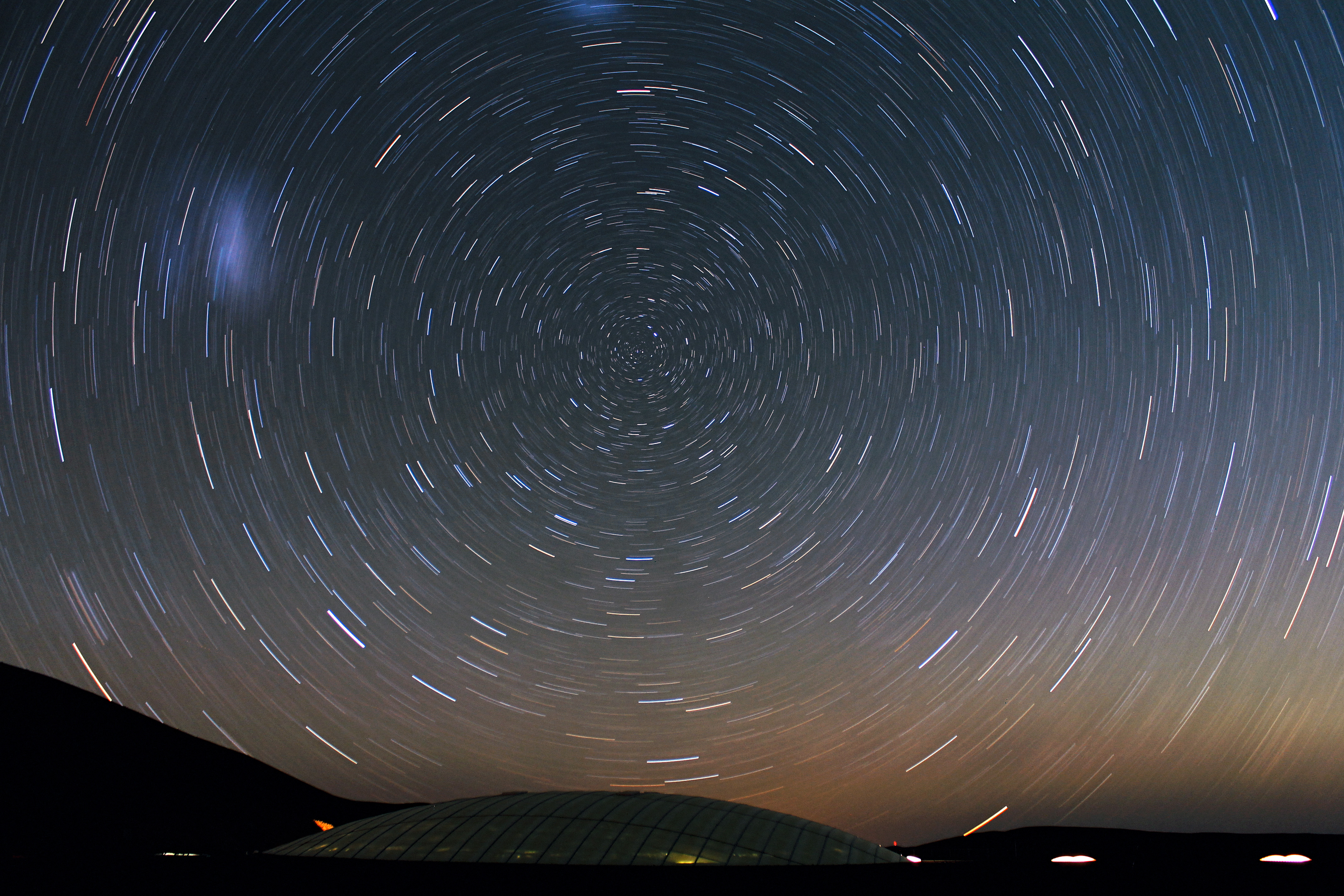 This image from ESO Photo Ambassador Farid Char, of the southern night sky over the Residencia “hotel” at ESO’s Paranal Observatory in Chile, presents a beautifully star-filled and dynamic view of the heavens. To make the swirling star trails on this image, Farid used a 30-minute exposure to reveal the observed movement of the stars due to the rotation of the Earth. In the centre is the apparently still point of the south celestial pole. On the left, and at the top of the image, are the extended blurs of the Large and Small Magellanic Clouds, neighbouring galaxies of the Milky Way. The dark glass dome below the circling stars is part of the roof of the Residencia building. This unique partially subterranean construction has been in use since 2002 by scientists and engineers working at the observatory. During the day, the 35-metre-wide dome allows natural daylight into the building. At the observatory, located on a mountain at an elevation of 2600 metres in the arid Atacama Desert, the excellent astronomical conditions come at a price. People there face intense sunlight during the day, very low humidity, and the high altitude can leave them short of breath. To help them relax and rehydrate after long shifts on the mountaintop, there is an artificial oasis at the Residencia, with a small garden, a swimming pool that humidifies the air, a lounge, a dining room, and other recreational facilities. The building can accommodate over 100 people.